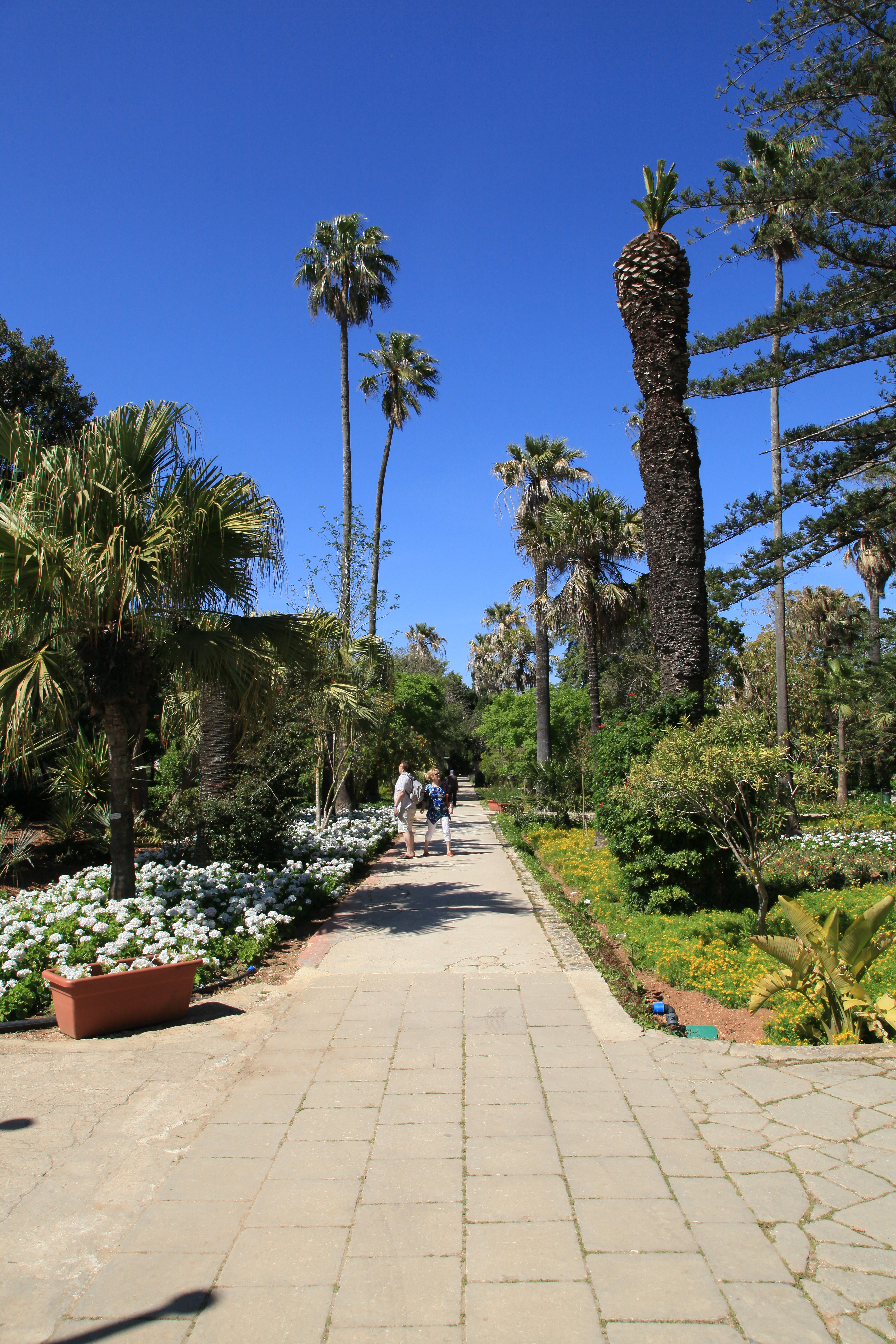 San Anton Gardens in Attard, Malta